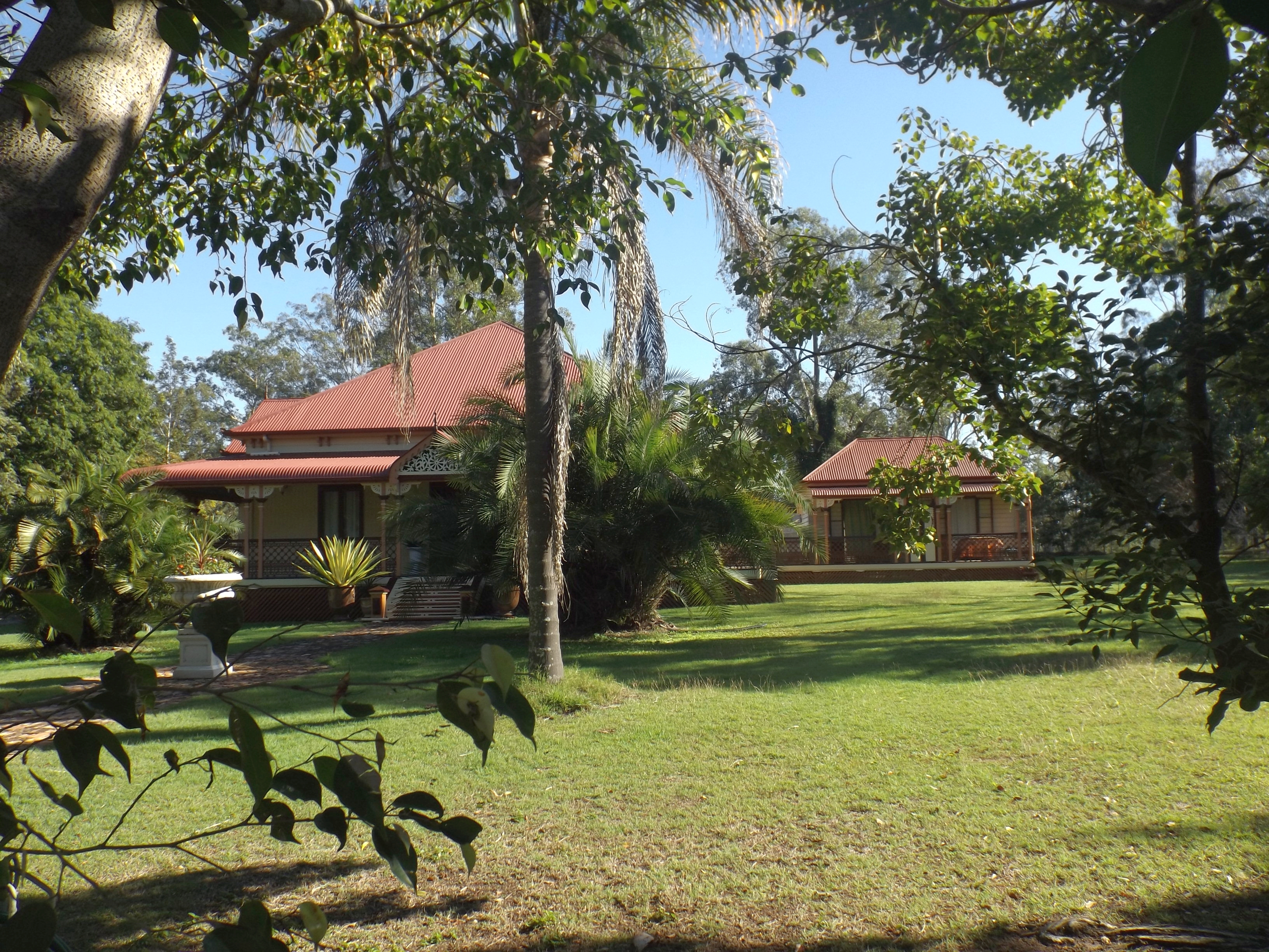 Photo of one of the Wright Family Houses at 98 Mt Crosby Road Tivoli, Ipswich Queensland, Australia.